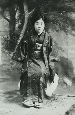 Fumiko Hayashi (31 December 1903 – 28 June 1951).